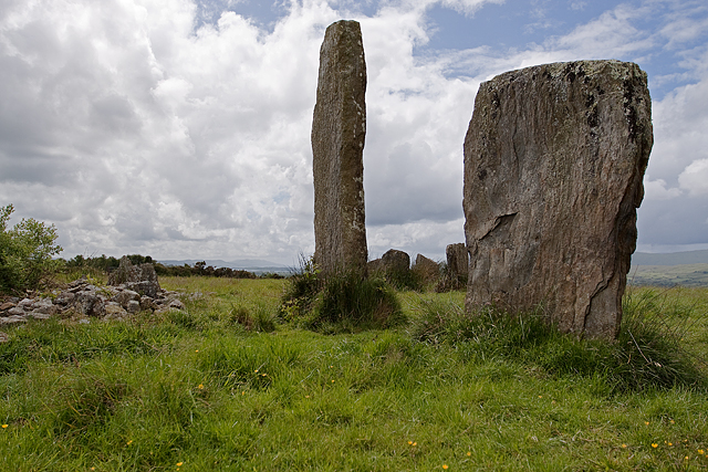 Kealkill Stone Circle This megalithic site overlooking Bantry Bay near Kealkill, consists of a small circle of five axial stones, adjacent to two large standing stones.